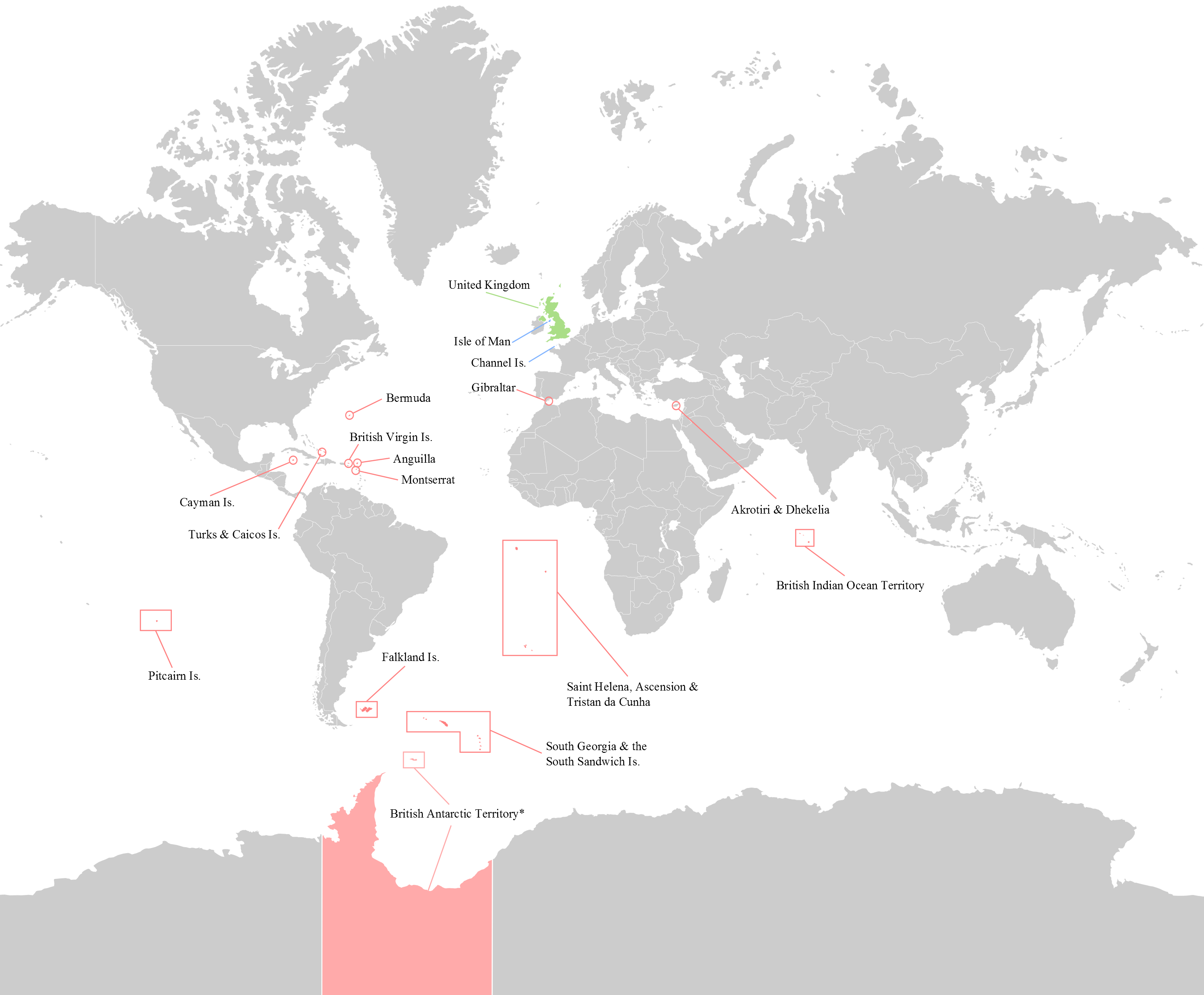 Map of the 14 current (2012) British Overseas Territories. Antarctica - where sovereignty is suspended is slightly lighter. British Overseas Territories United Kingdom Crown Dependencies